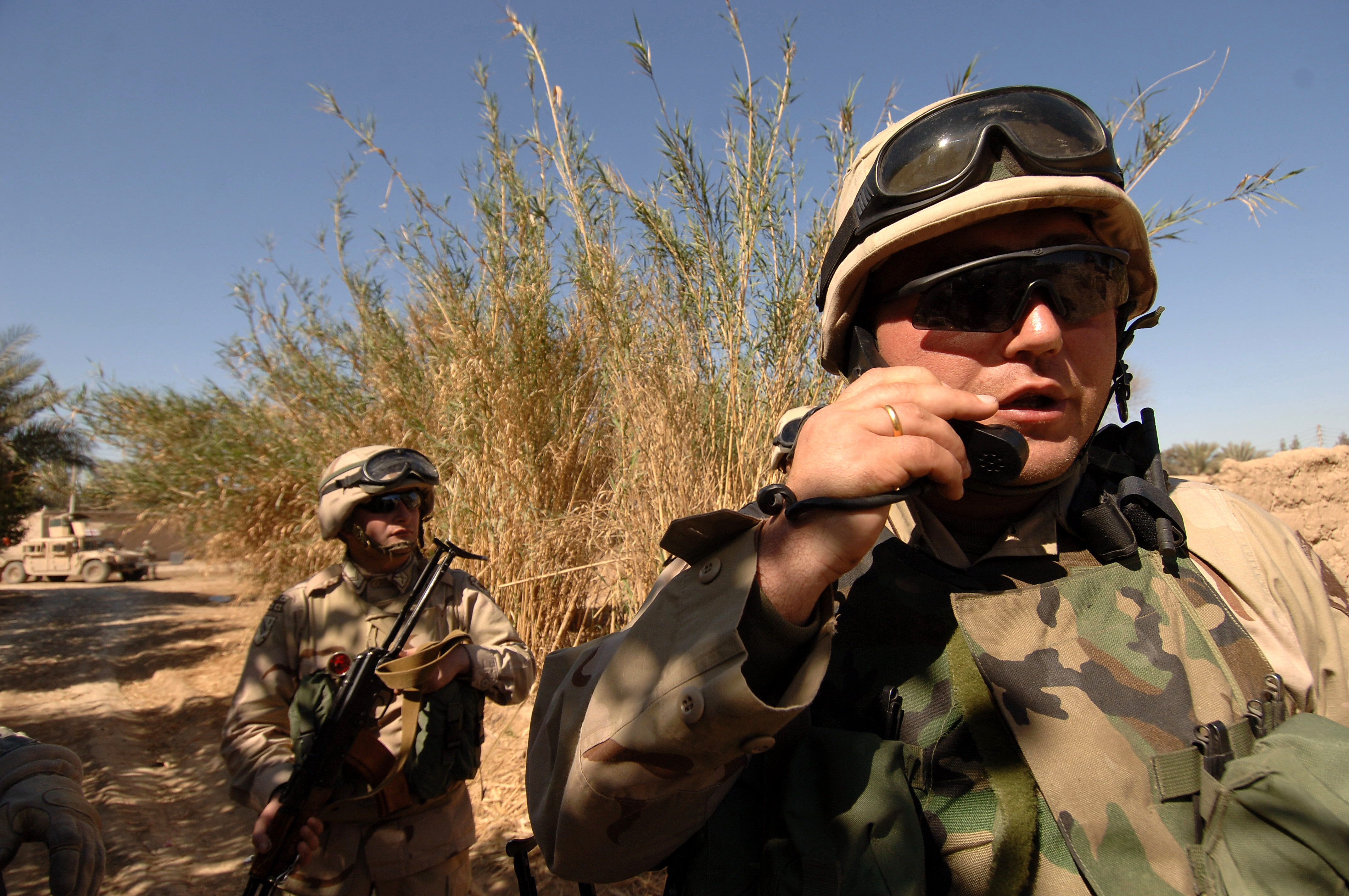 A company commander from the 13th Georgian Army Battalion radios in a situation report while conducting a joint clearing operation with Iraqi army soldiers from 3rd Company, 2nd Battalion, 32nd Infantry Brigade, 8th Iraq Army Division in Ali Shaheen, Iraq.